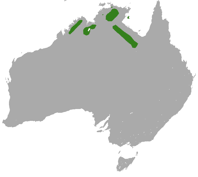 Rock-haunting Ringtail Possum (Petropseudes dahli) range